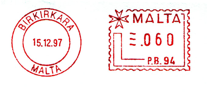 Meter stamp catalog image, Malta type A8